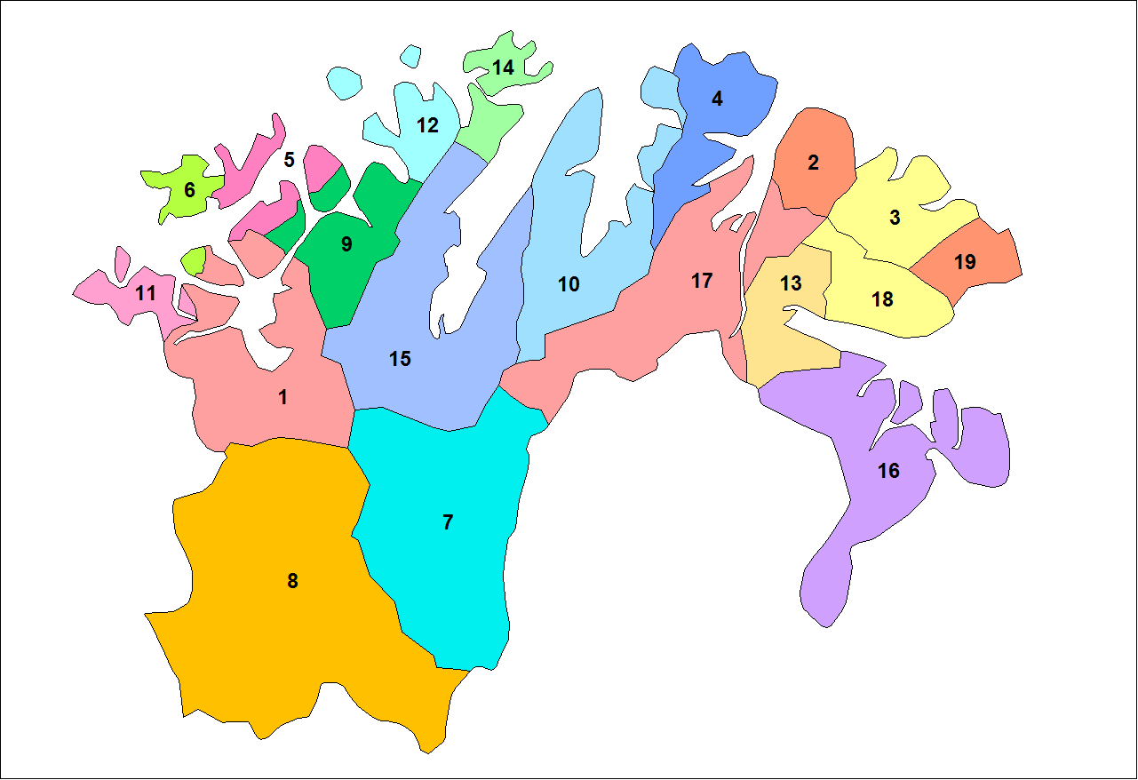 Map of the municipalities of Finnmark county in Norway. Created by Rarelibra 16:44, 20 March 2007 (UTC) for public domain use, using MapInfo Professional v8.5 and various mapping resources.